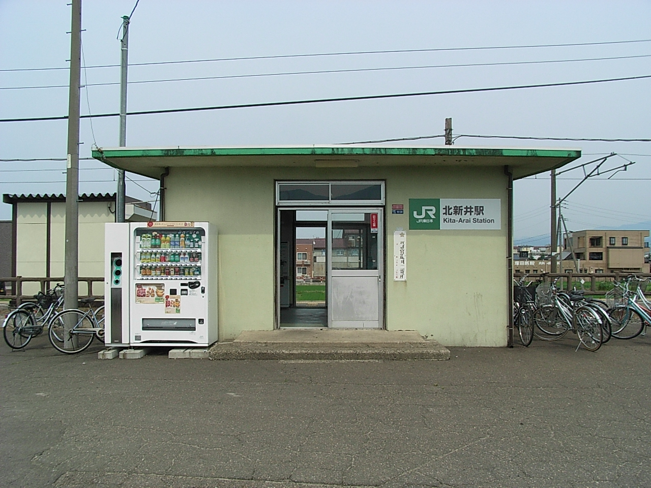 Kita-Arai Station on the JR East Shinetsu Line in the city of Myoko, Niigata Prefecture, Japan